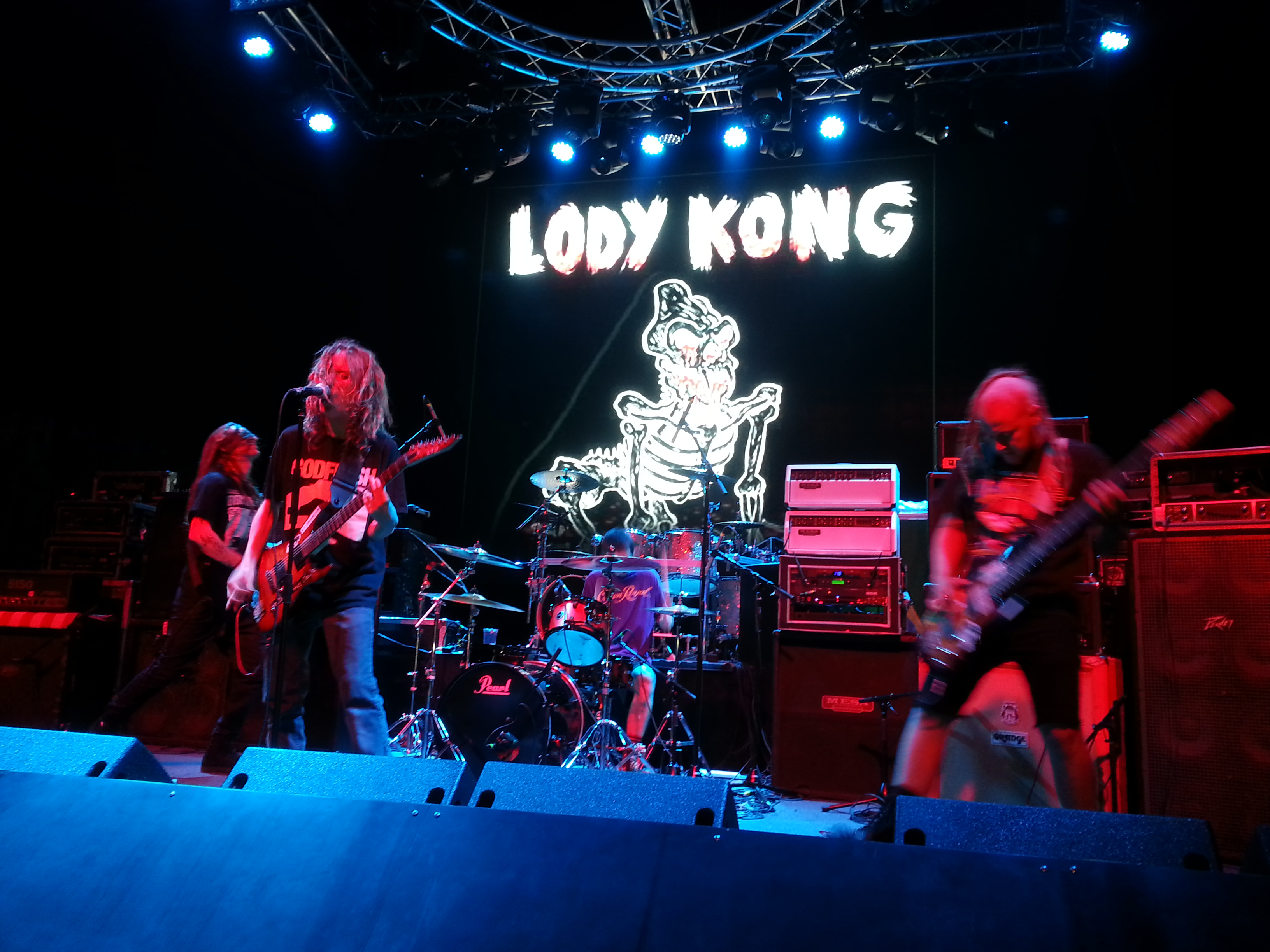 Lody Kong performing with backdrop art by Sergio Zuniga